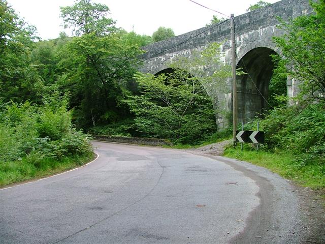 Larichmore Viaduct and the A830. Glenfinnan is supposed to be the first ever concrete viaduct but this one must have been built around the same time.